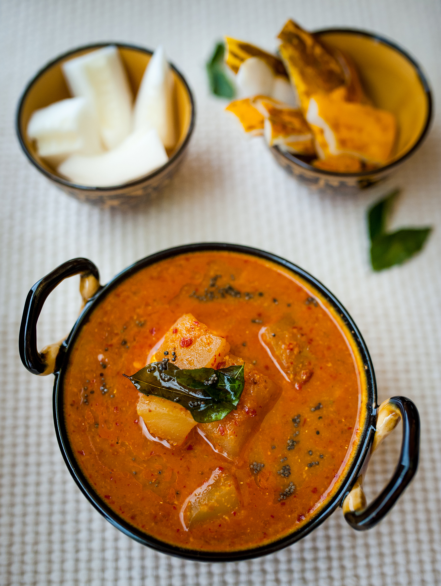 Puli koddel (as we call this in konkani) is one of the traditional and authentic Udupi recipes made specially during the festive season in the temples. This dish is considered as “Sathvik food” as it contains no onions and garlic and eaten as a side dish along with rice and rasam. It is a staple in all meals served in Konkani Venkatramana temples world wide.Typically, the dish is made using Mangalore/yellow cucumber, but you could also use ash gourd or bottle gourd (lauki in hindi) and they all taste the same.